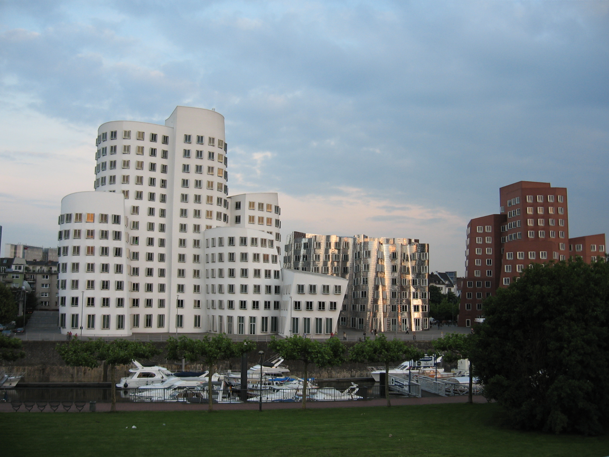 Picture of the Frank Gehry buildings in Düsseldorf. if you stand on the other side of the steel sided building in the morning,the sun is reflected in such a concentrated way that the motorcycles that are parked in front of it fall over because the ground gets heated up so much. the heat is quite intense even at 9:00 am